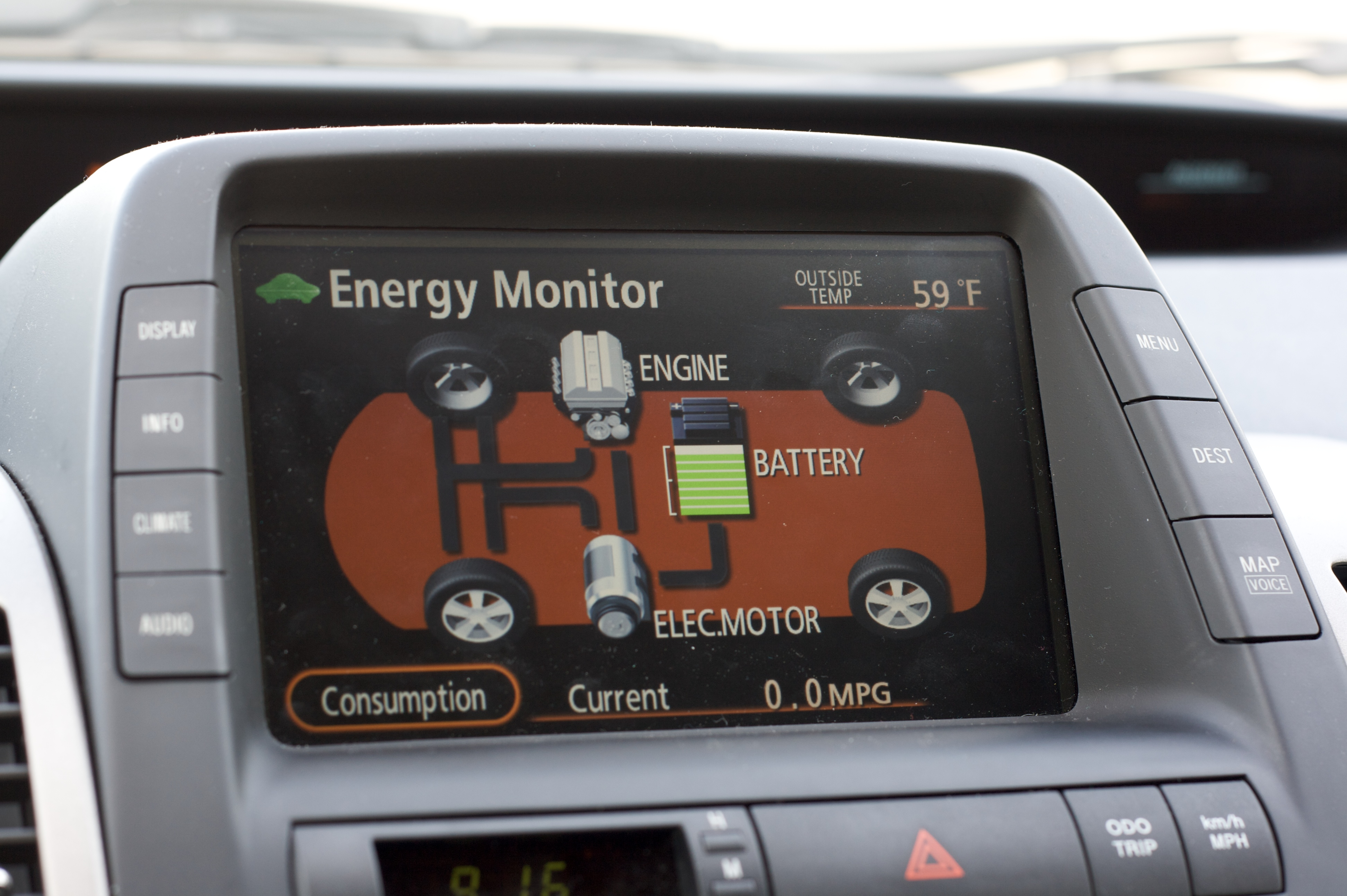 Toyota Prius Energy Monitor